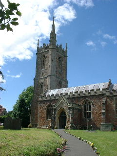 St Andrews Church, Chew Stoke. Seen from the gateway on southern side of churchyard. Taken during the flower festival 2004.